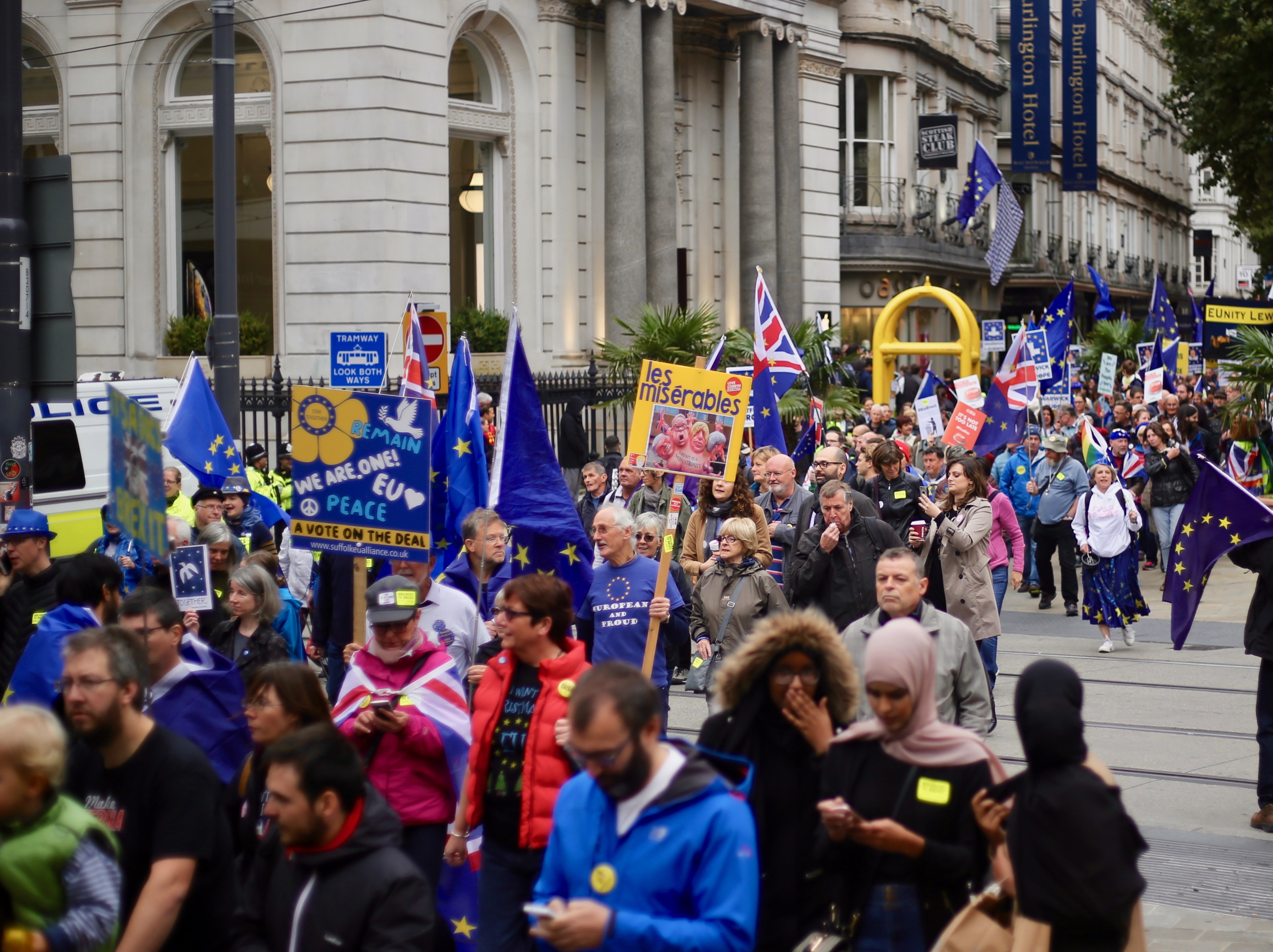 Birmingham Bin Brexit march for a People's Vote on leaving the European Union to coincide with the Conservative Party conference being held in the city. Speakers included AC Grayling, Lord Andrew Adonis, Femi Oluwole, #Remainer Now and Tories Against Brexit.